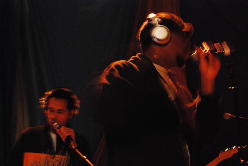 Panacea live (September 2007) at XM Satellite Radio